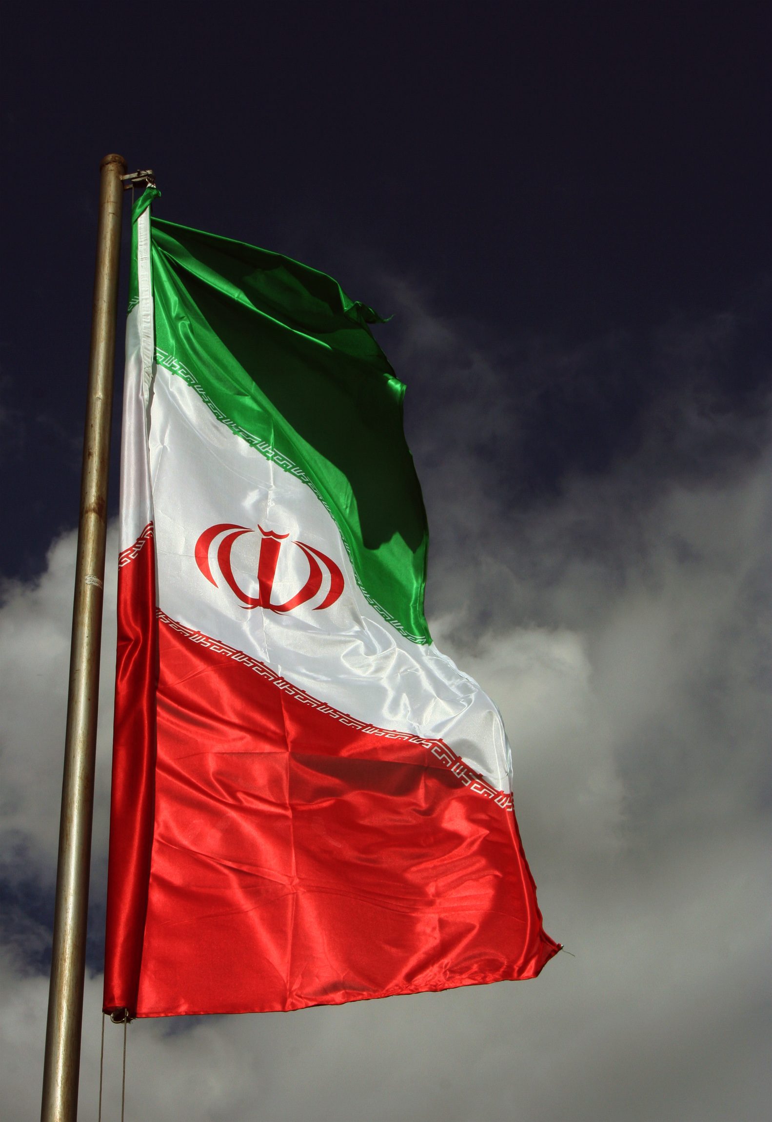 Flag of Iran